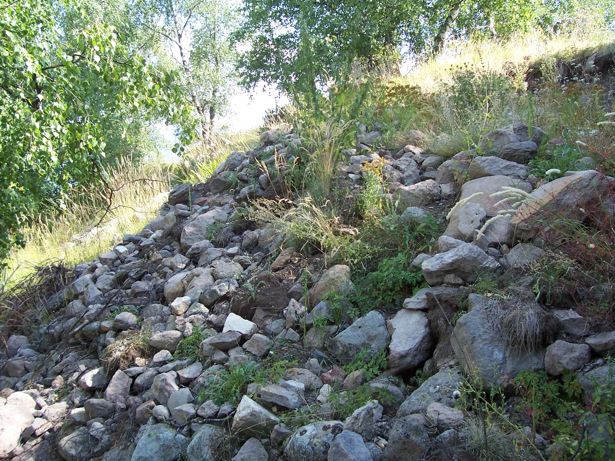 Remains of the Padiboga fortress north of the village of Vaklinovo.